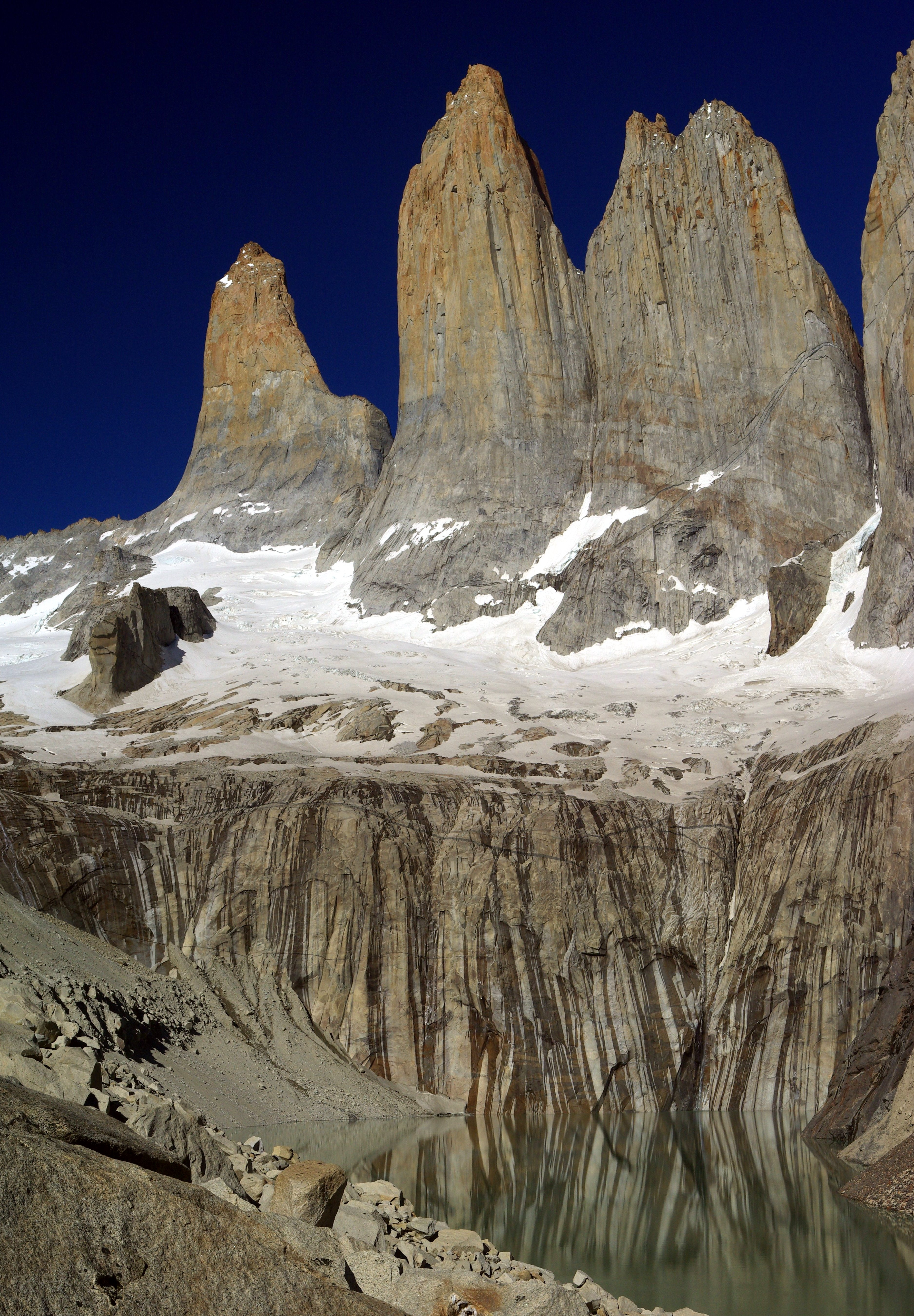 A vertical panorama of the Torres del Paine, in Chile's Torres del Paine National Park.